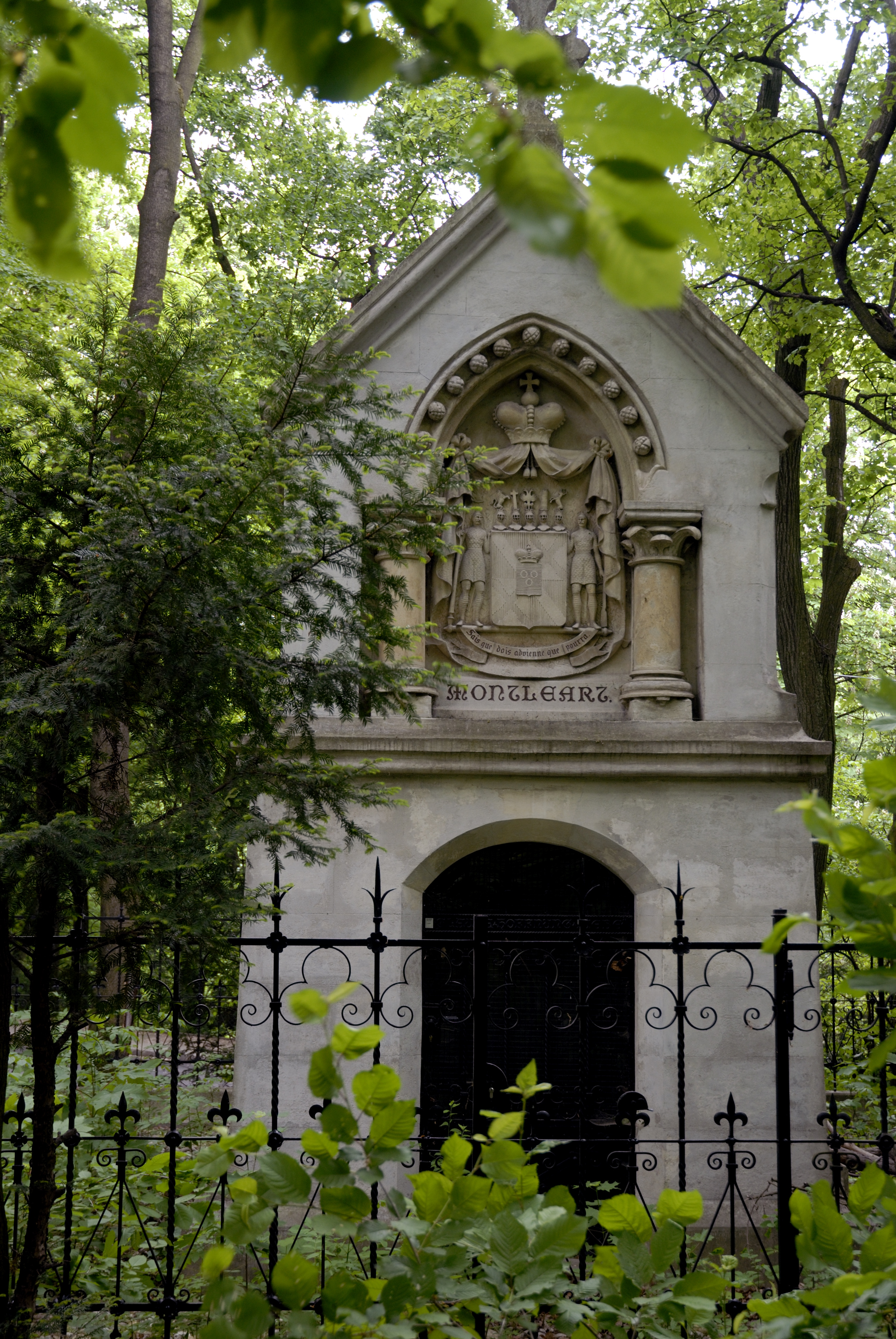 The Grave of Duke Moritz de Montléart and his wife Wilhelmine at Castle Wilhelminenberg (Savoyenstrasse, Vienna, Austria)